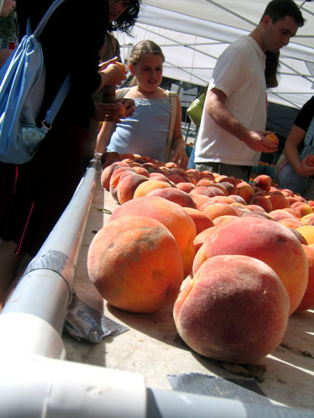 girl_peaches